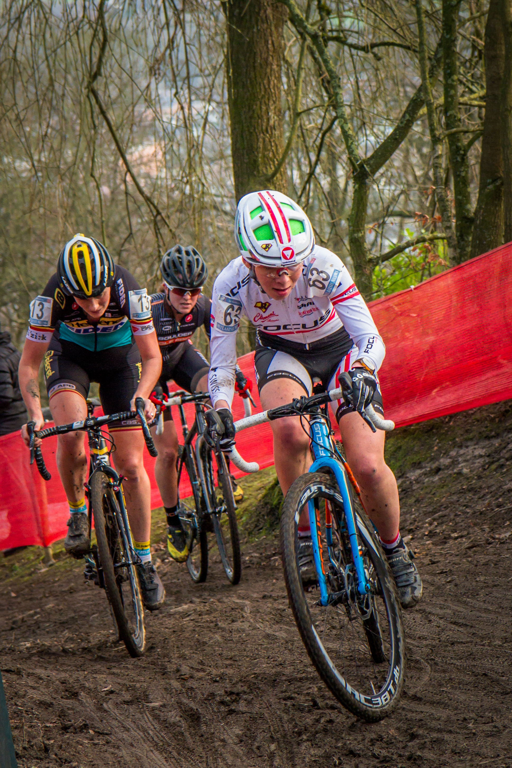 Nadja Heigl (AUT), Loes Sels (BEL) and Amanda Miller (USA). UCI Cyclocross World Cup, Namur, 2015.